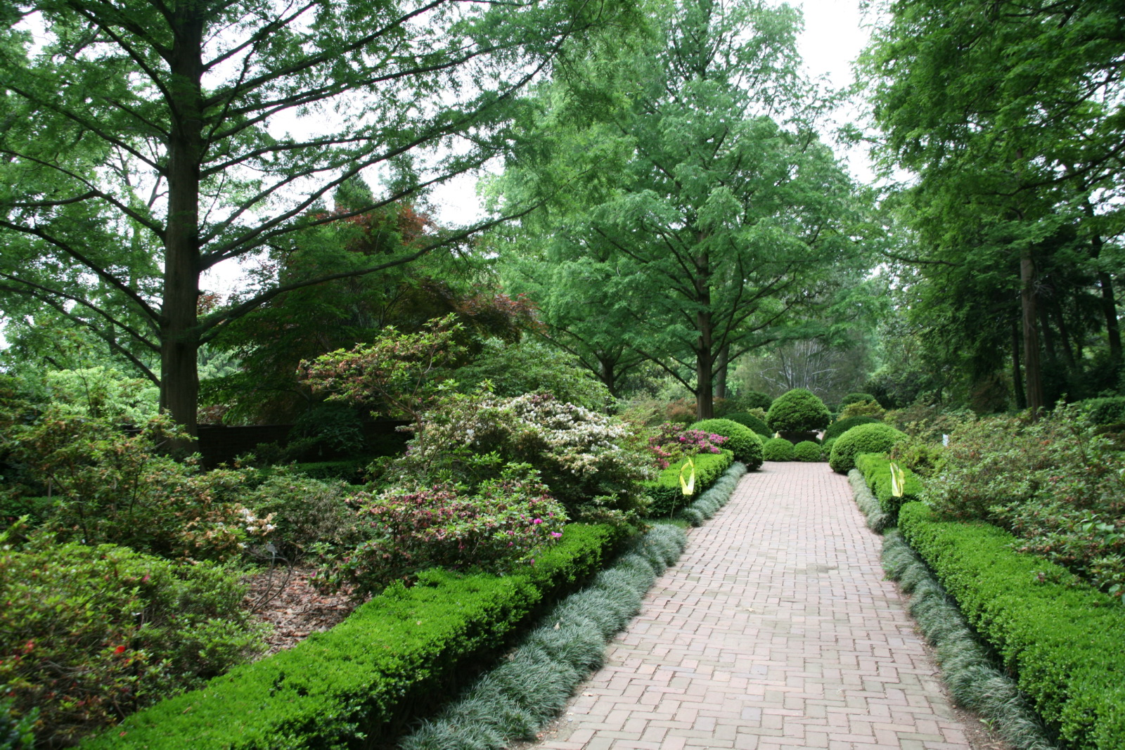 In 1952, the walled Morrison Garden was built. It still serves as the hub that unifies the Azalea Collection today. Bricks from a schoolhouse located in what is now the Boxwood Collection were used to construct the walls of this garden and impart a sense of timelessness. As the shrubs matured in the 1950s, locals could not resist the colorful spring beacon of the blooms. Their desire to see the plants led to the opening of the U.S. National Arboretum to the public on a seasonal basis on May 3, 1954.